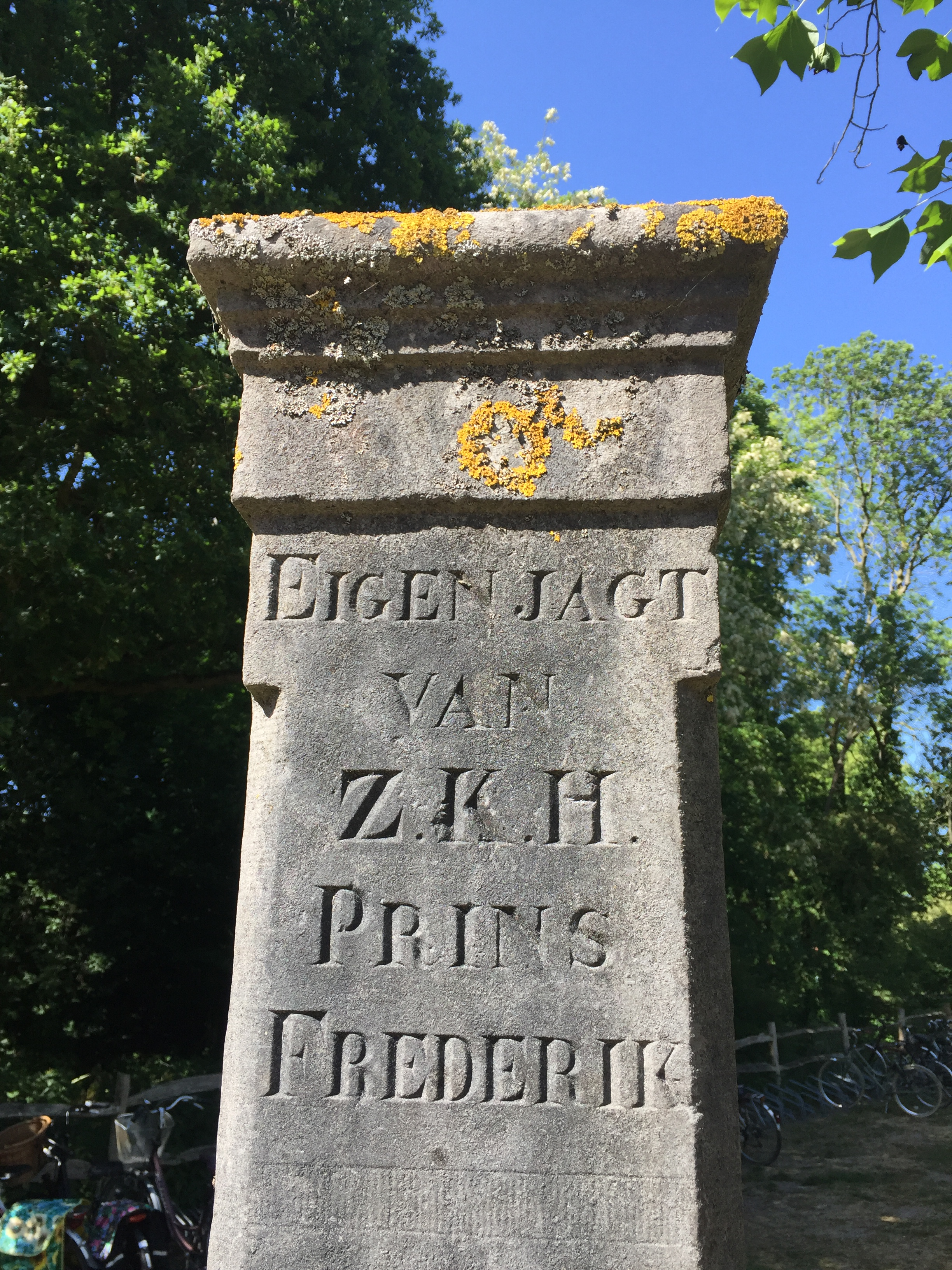 Eigen Jagt Z.K.H. Prins Frederik